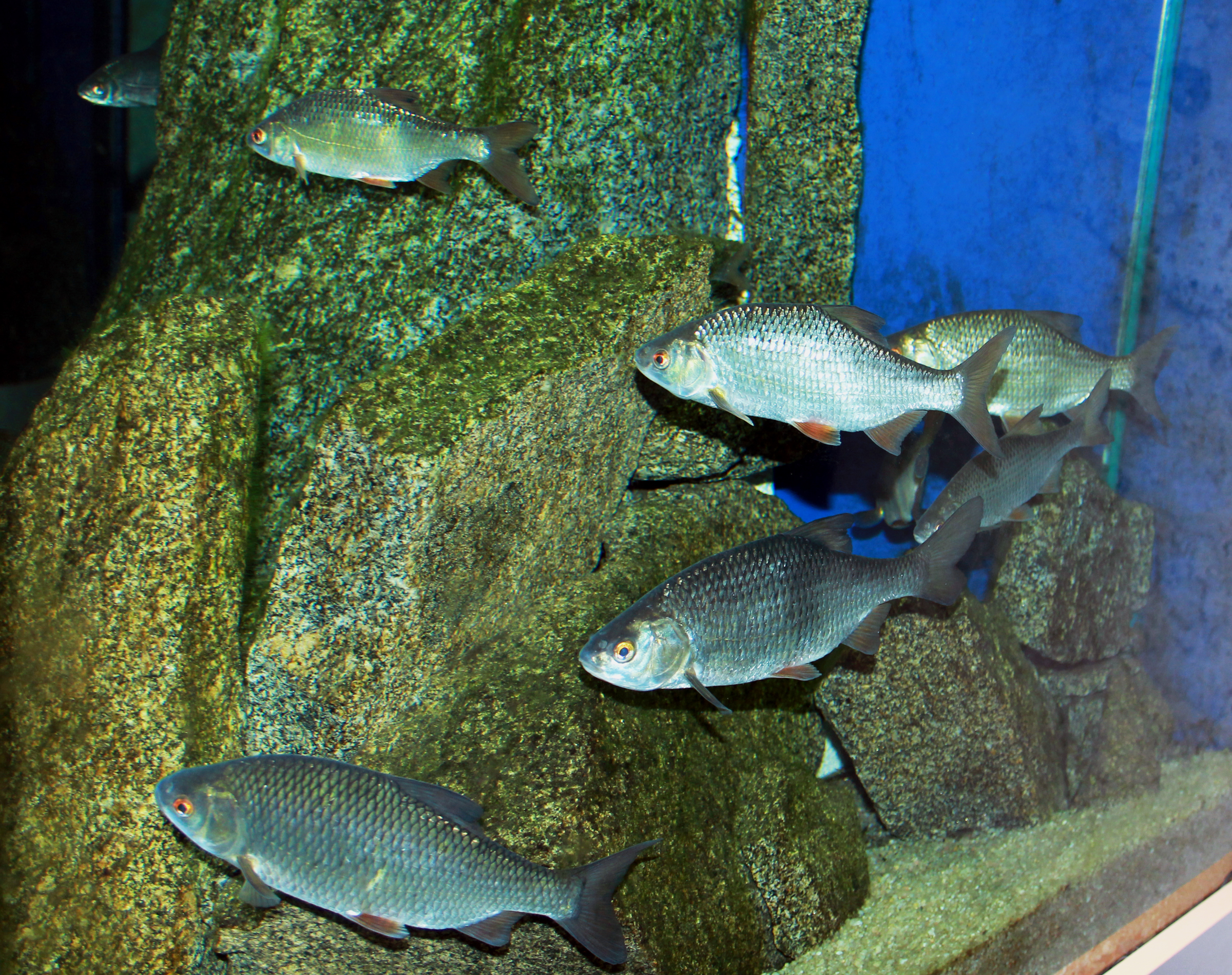 Common roach on exhibition Subaqueous Vltava, Prague 2011, Czech Republic